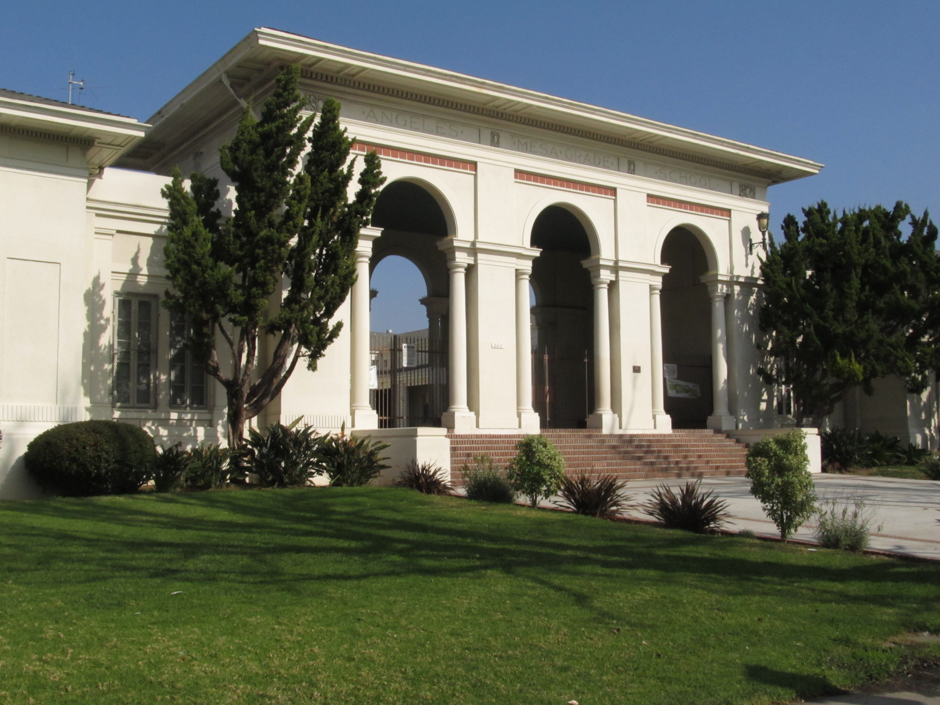 2611 W. 52nd Street, Los Angeles, CA 90043